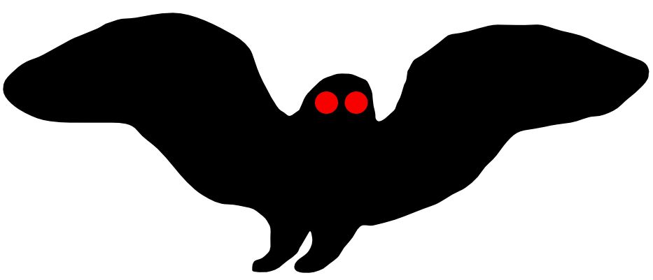 Legendary mothman